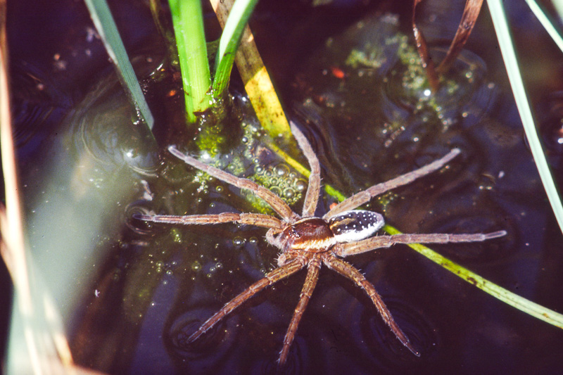 Jack's Swamp Nature Reserve - the fishing spider Dolomedes sp. on the surface of the water on the causeway between the southern (A) and the middle (B) reservoirs. Wesoła, Warsaw, Poland. This is a photography of Natura 2000 protected area with ID PLH140034